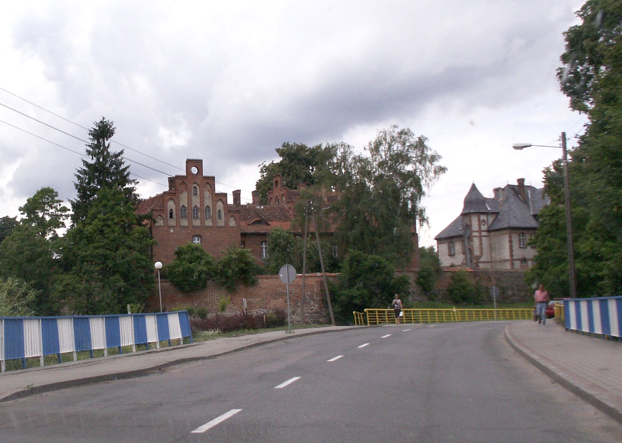 Sztum, Poland